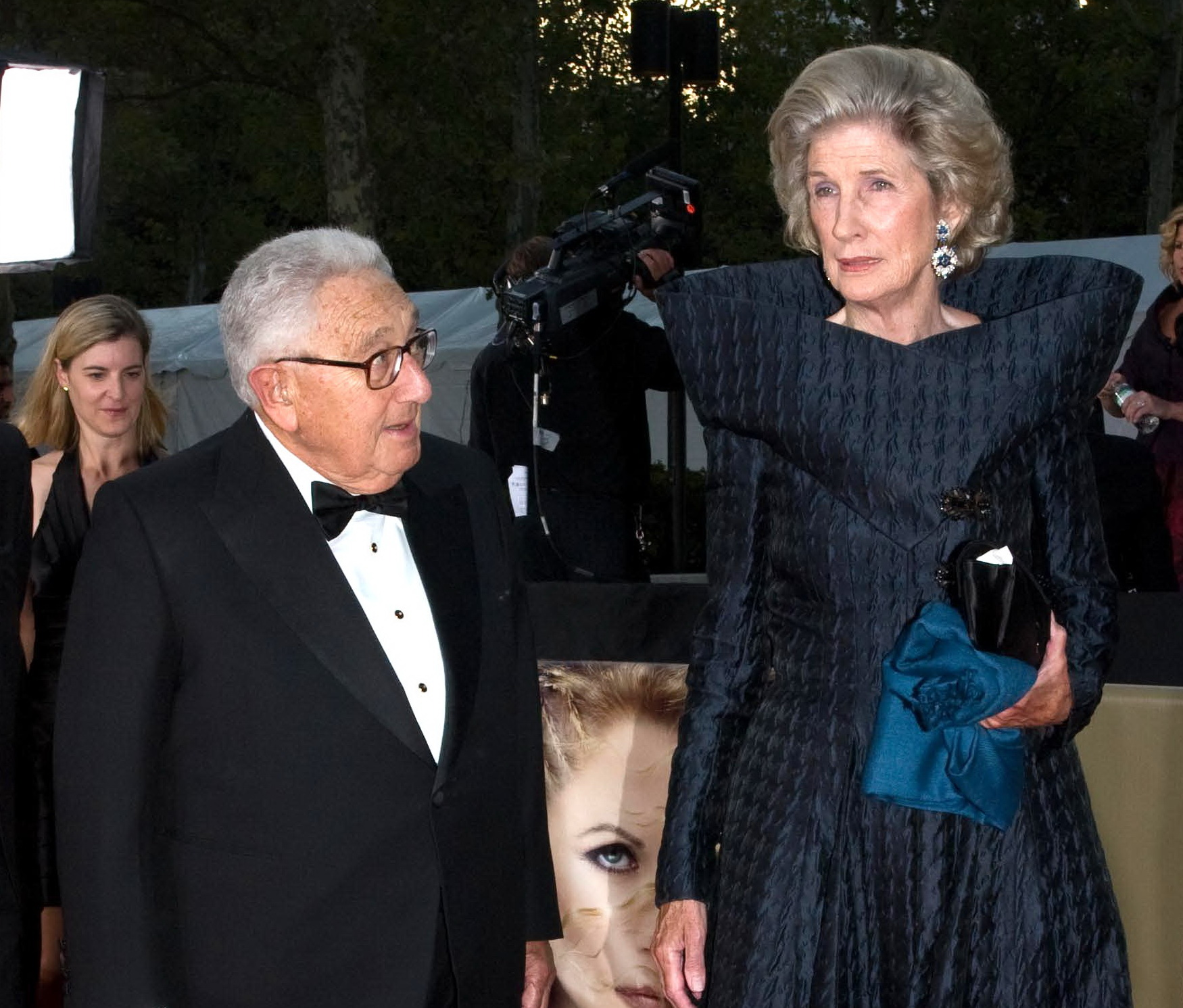 Henry and Nancy Kissinger at the Metropolitan Opera opening in 2008. © Rubenstein, photographer Martyna Borkowski